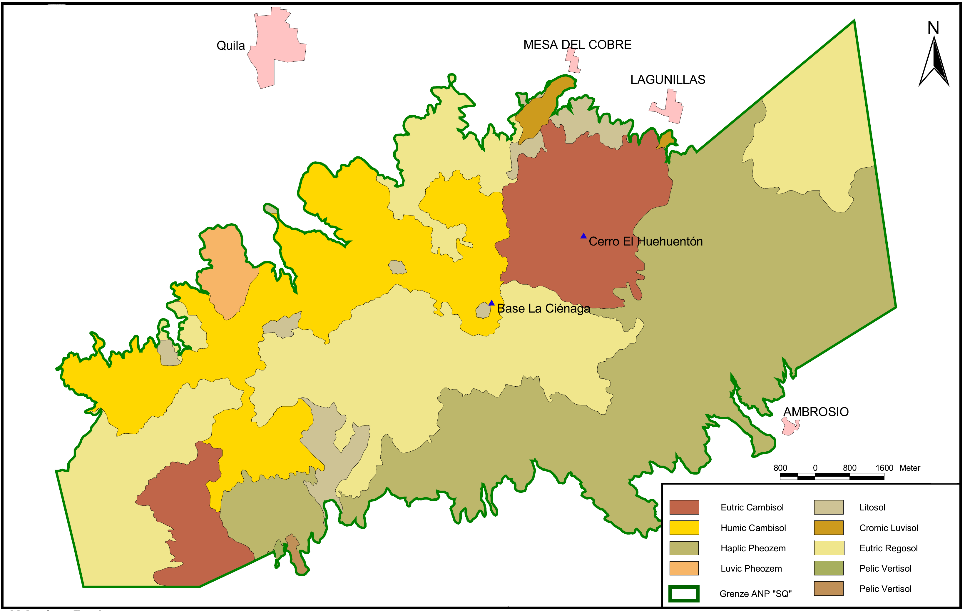 soil map, Sierra de Quila, Jalisco, Mexico